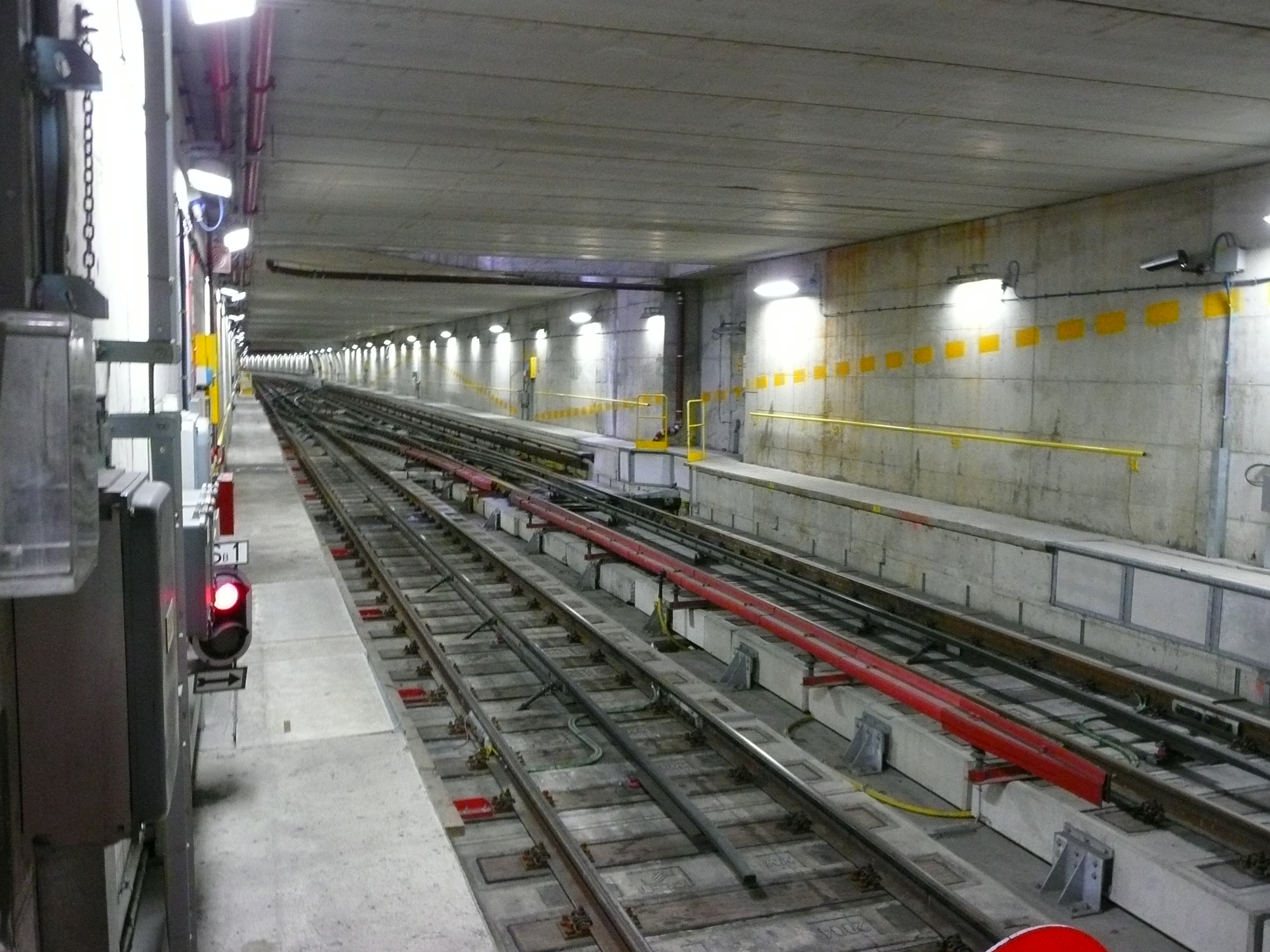 A view looking into the tunnel showing the four rail nature of the electrification of Milan's metro line 1 (top contact negative between the tracks and side contact positive to the side of the tracks).